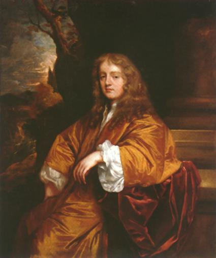 Portrait of Sir Ralph Bankes (1631-1677)